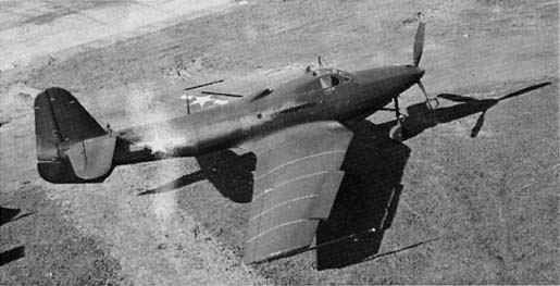 One of two highly modified P-63Cs made for testing low-speed and stall characteristics of transonic and supersonic wing designs. The L-39 had 35-degree swept wings. The first L-39 was later taken to NACA at Langley where it was used for wind tunnel tests.